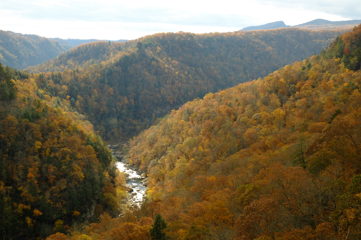 Autumn at the Breaks Interstate Park